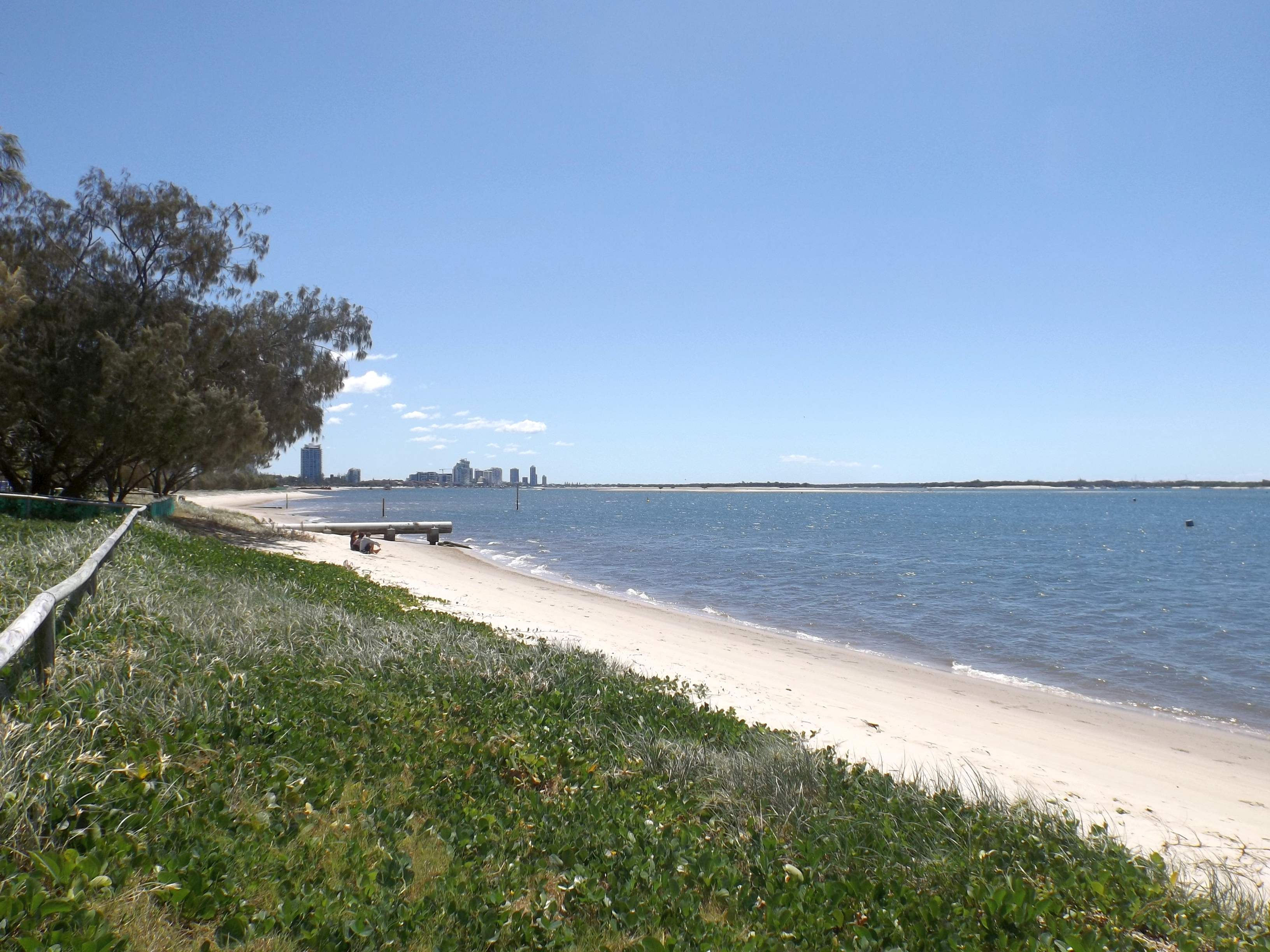 Photo of the foreshore at the Southport Broadwater Parklands, Southport, Gold Coast City, Queensland, Australia.